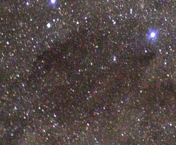 The dark Coal Sack Nebula., taken from the International Space Station